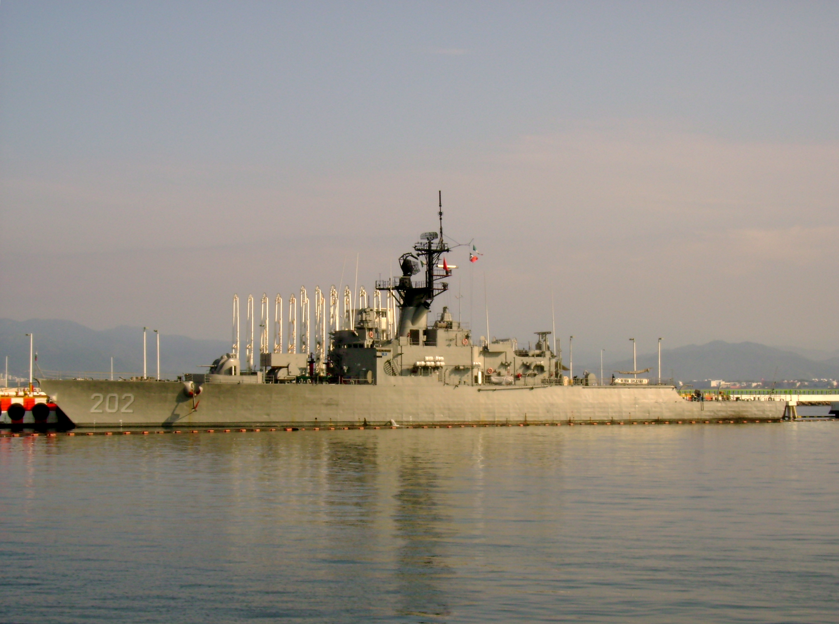 Mexican frigate ARM Hermenegildo Galeana (F 202) in port at Manzanillo, Colima (Mexico), on 21 August 2007.